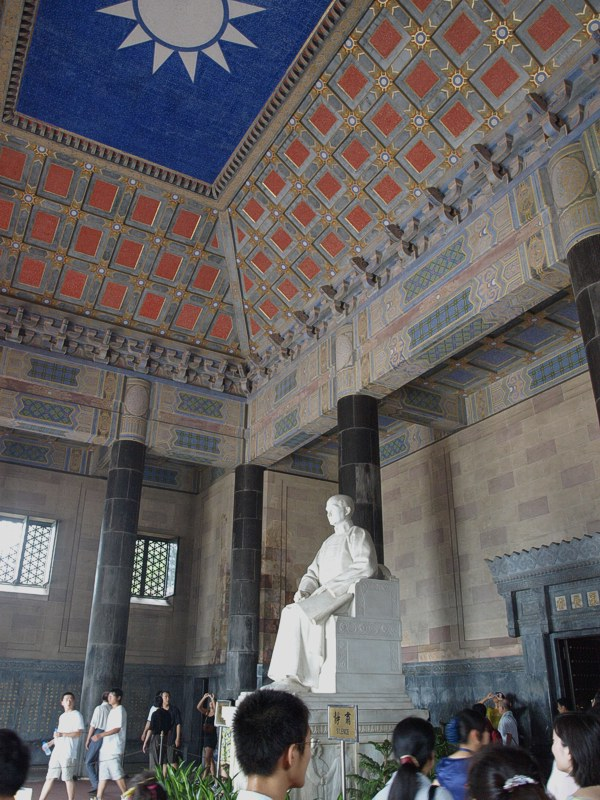 Statue of Sun Yat-sen in his Mausoleum, Nanjing, PR China. The mosaic on the ceiling shows the flag of the Kuomintang.